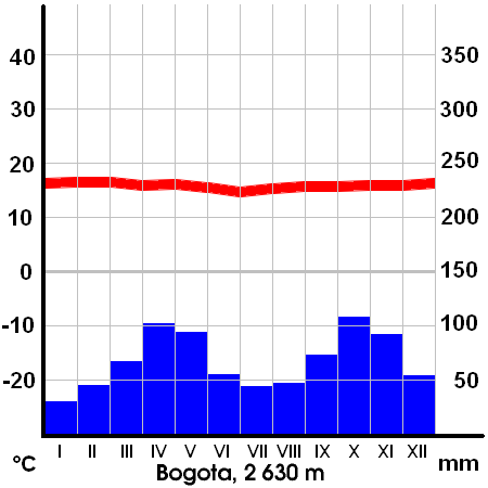 Rainfall and average max. temperature for Bogota, Colombia °Celsisus and millimeters. Software: Data